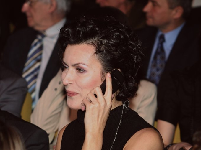 Danuta Stenka, Polish actress